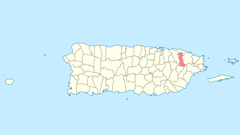 Municipal locator of Puerto Rico